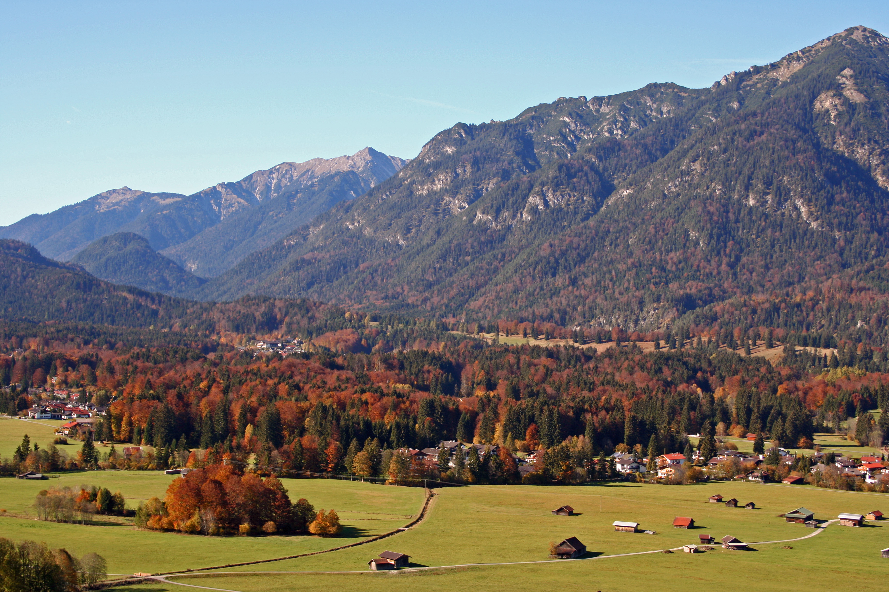 View at the Bavarian village Grainau in autumn